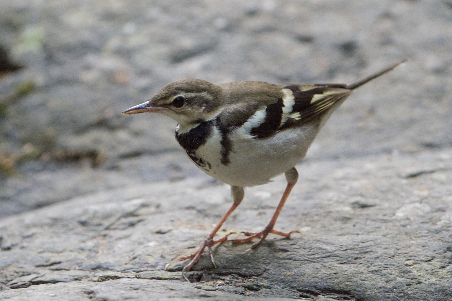 Forest Wagtail (Dendronanthus indicus) at Kaeng Krachan National Park, Thailand